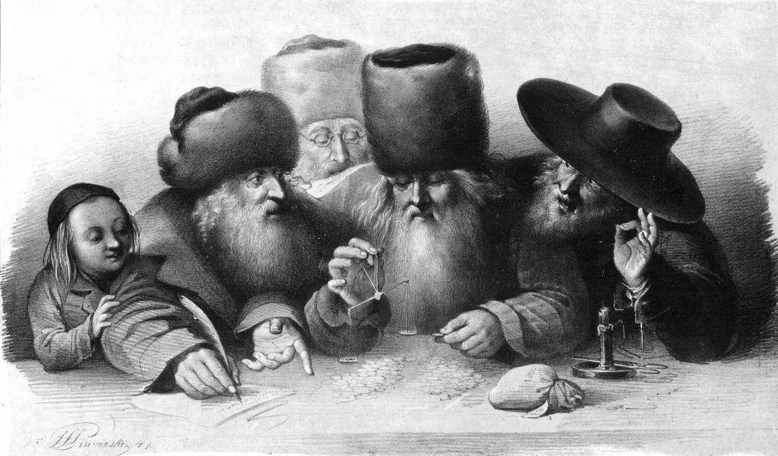 Jewish merchants in XIX century Warsaw